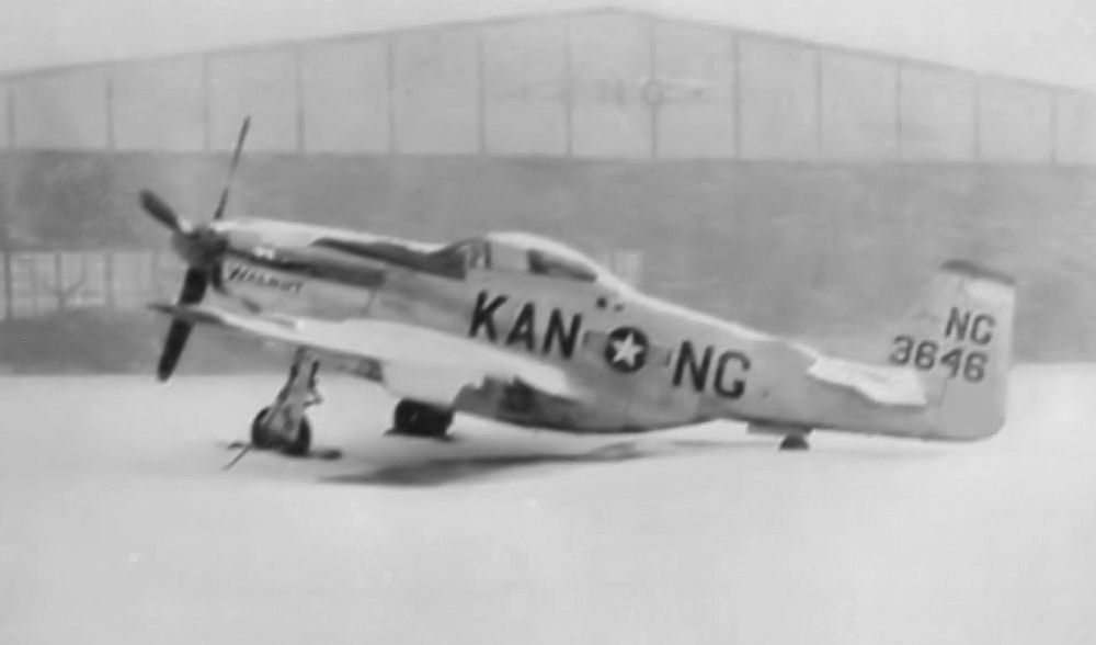 127th Fighter Squadron - P-51D-5-NA Mustang 44-1364